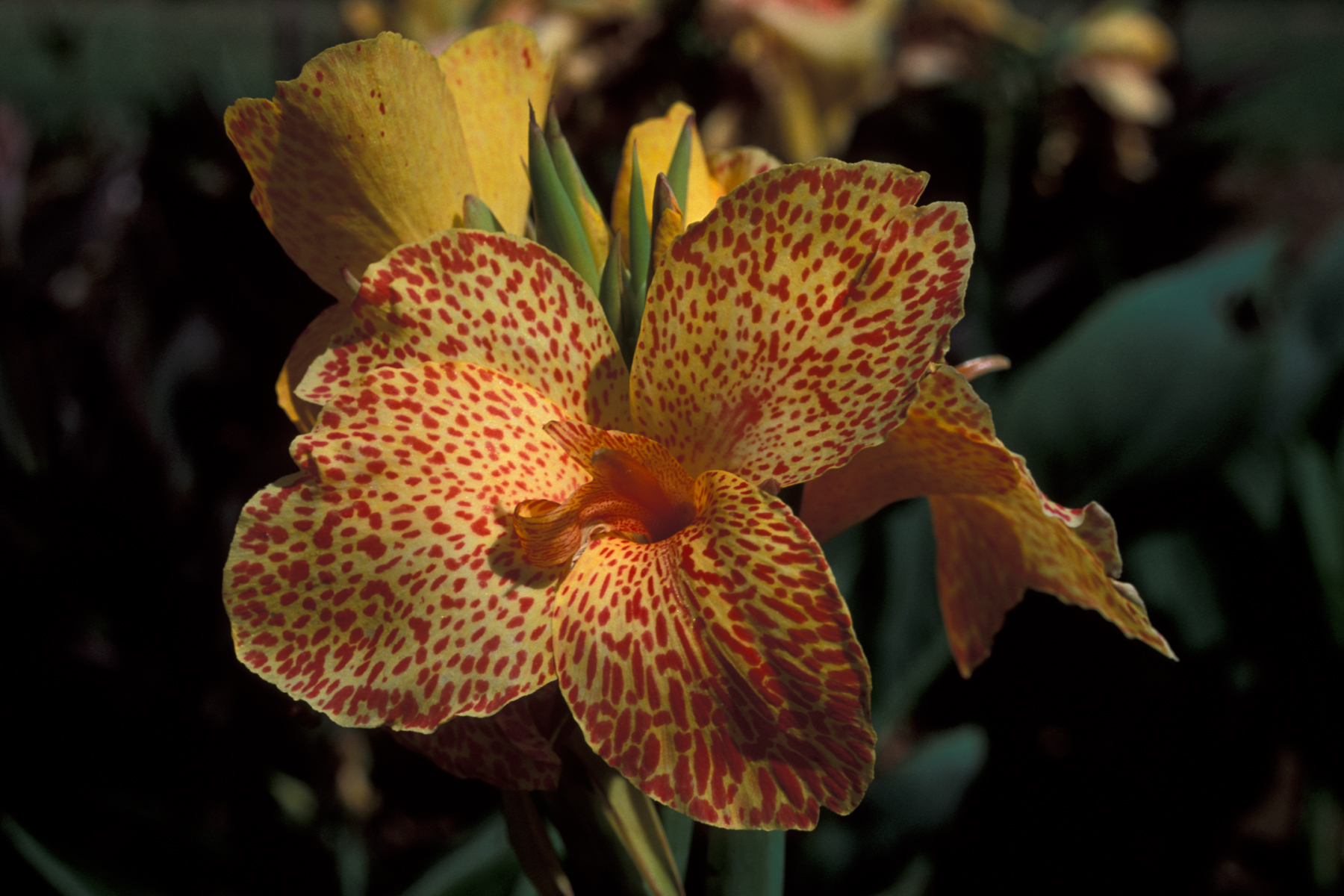 Canna x generalis (flowers). Location: Maui, Kula Experiment Station